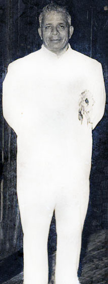 This the Original Photograph Of Dayanand Bandodkar